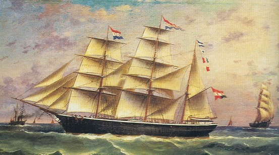 Bark "Trojednica", Bakar, Croatia, 1873